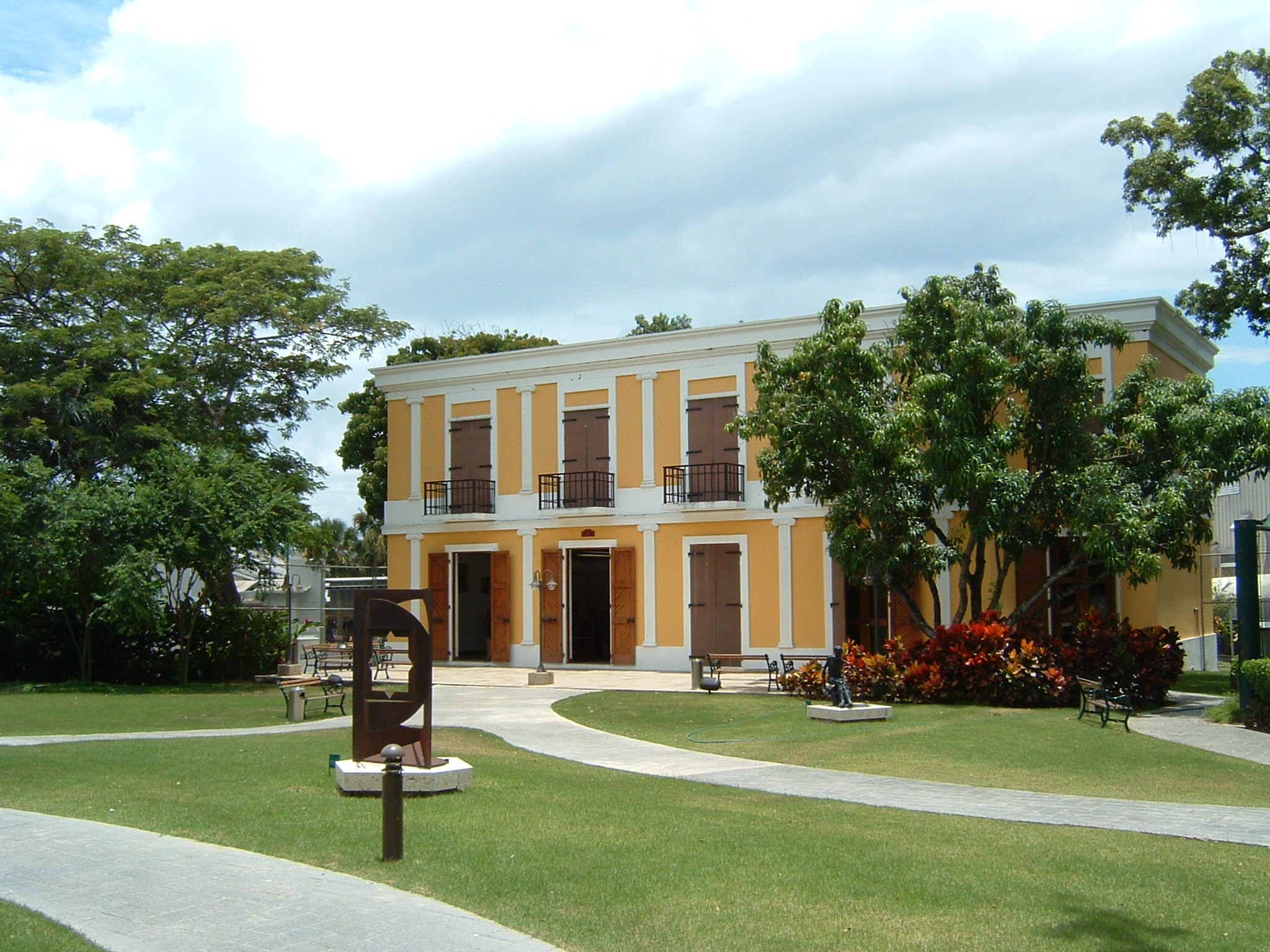 Aurora cigar factory, Santiago, Dominican RepublicIn 2014 gesloten